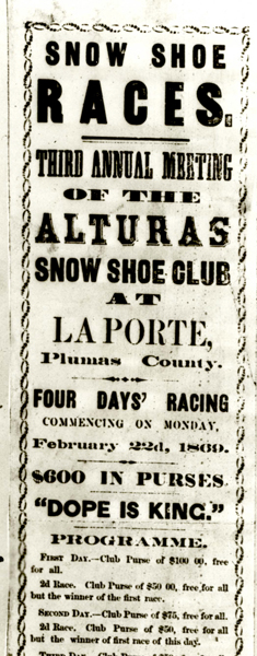 Newspaper ad for ski race (1869)